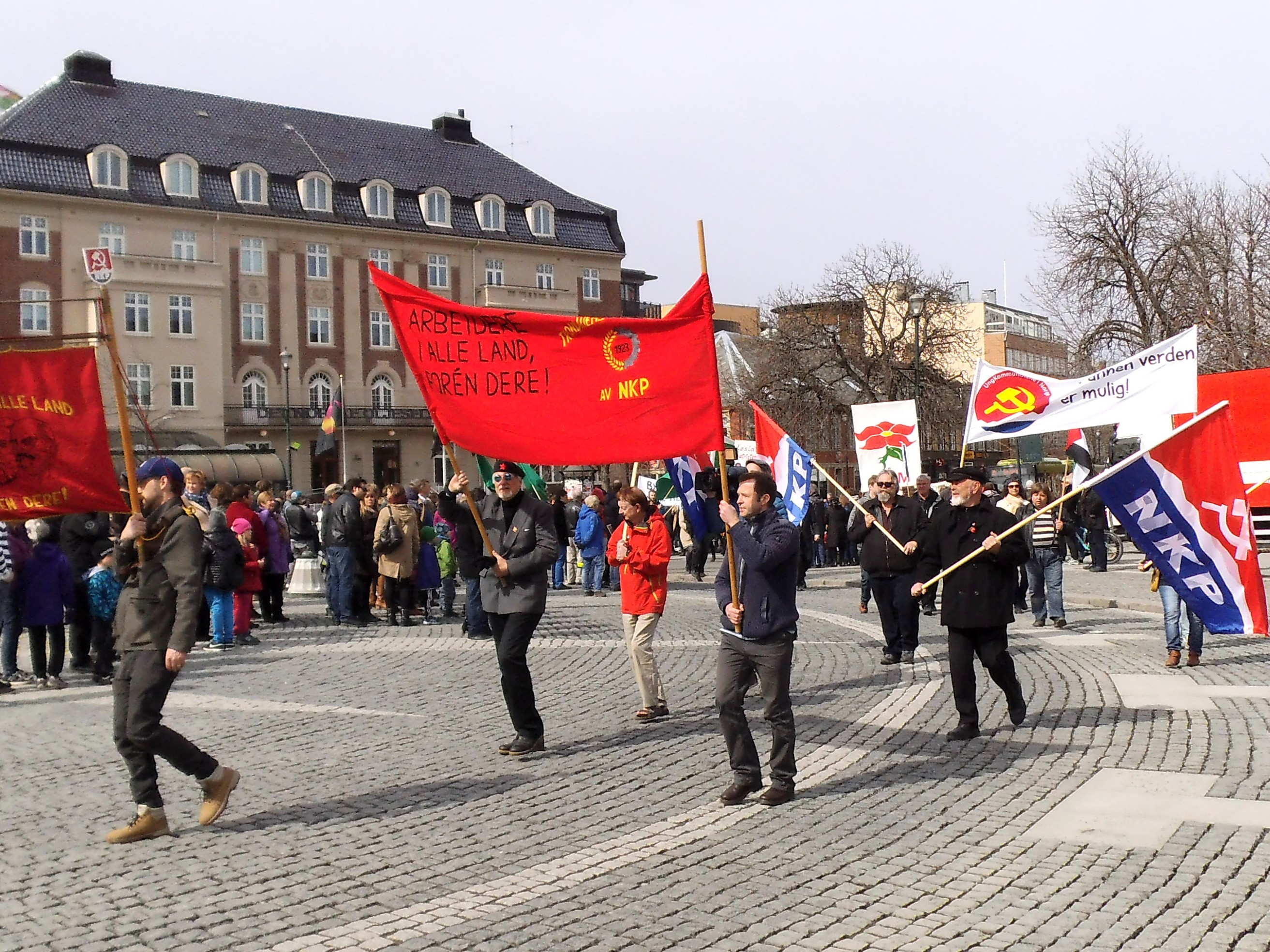 Members of NKP (Communist Party of Norway) participating in the International Workers' Day in Trondheim 2013.